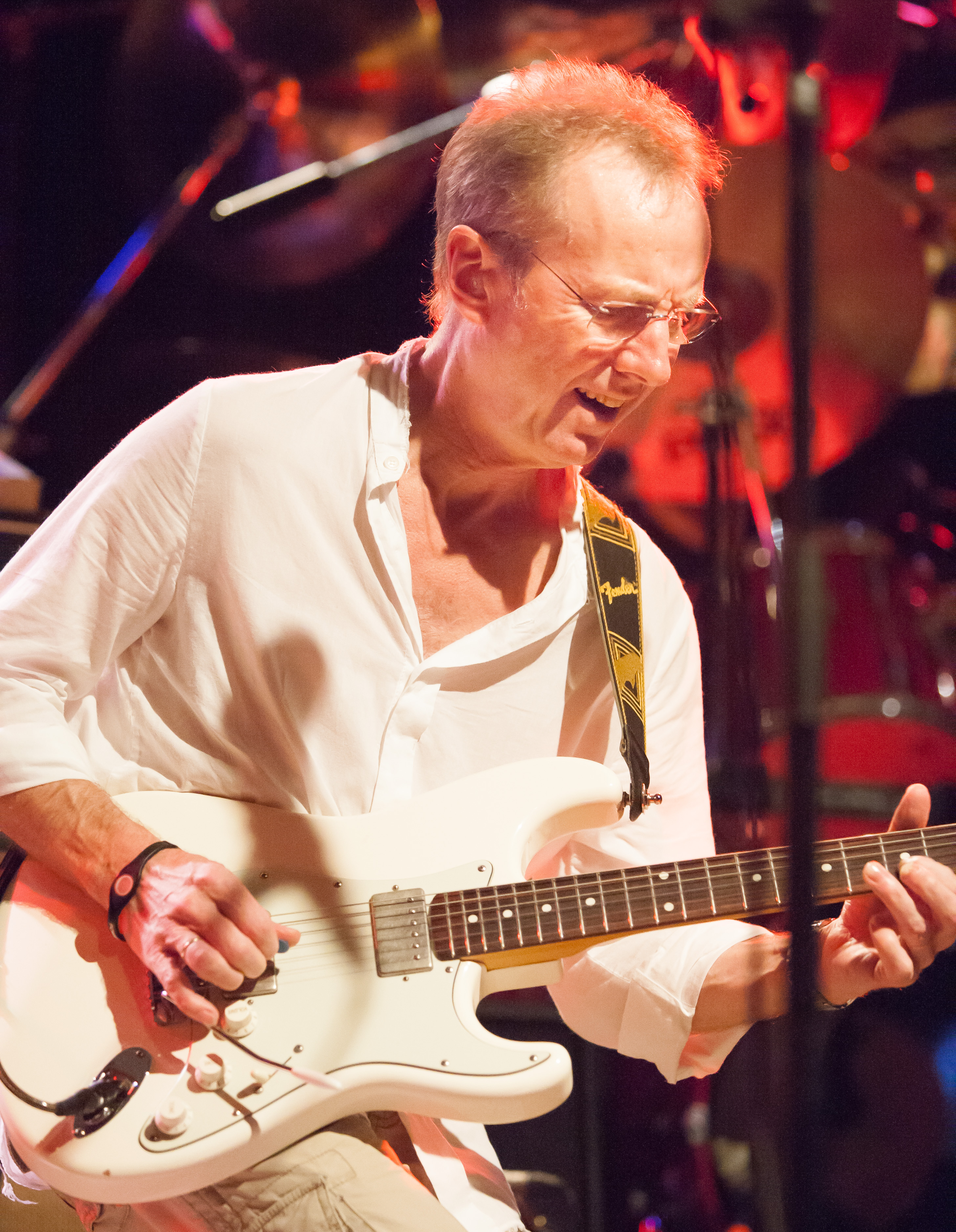 Clem Clempson on stage with Colosseum